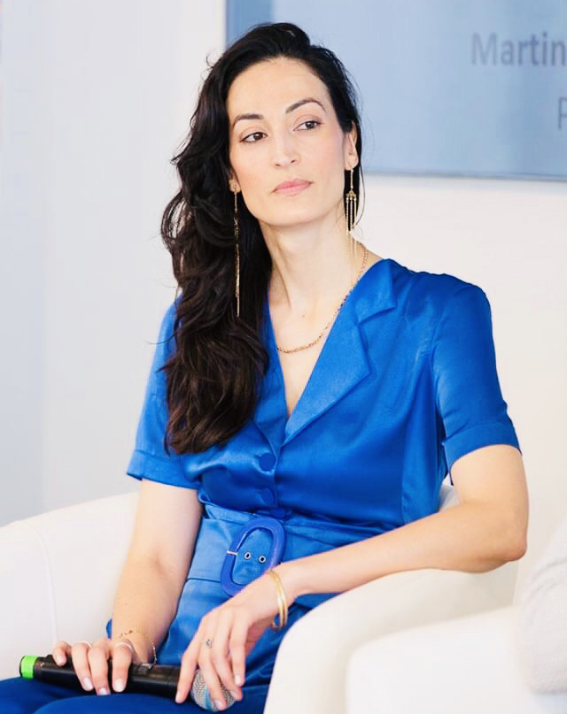 Actress Laetitia Eido at the Cannes Film Festival, May 2019